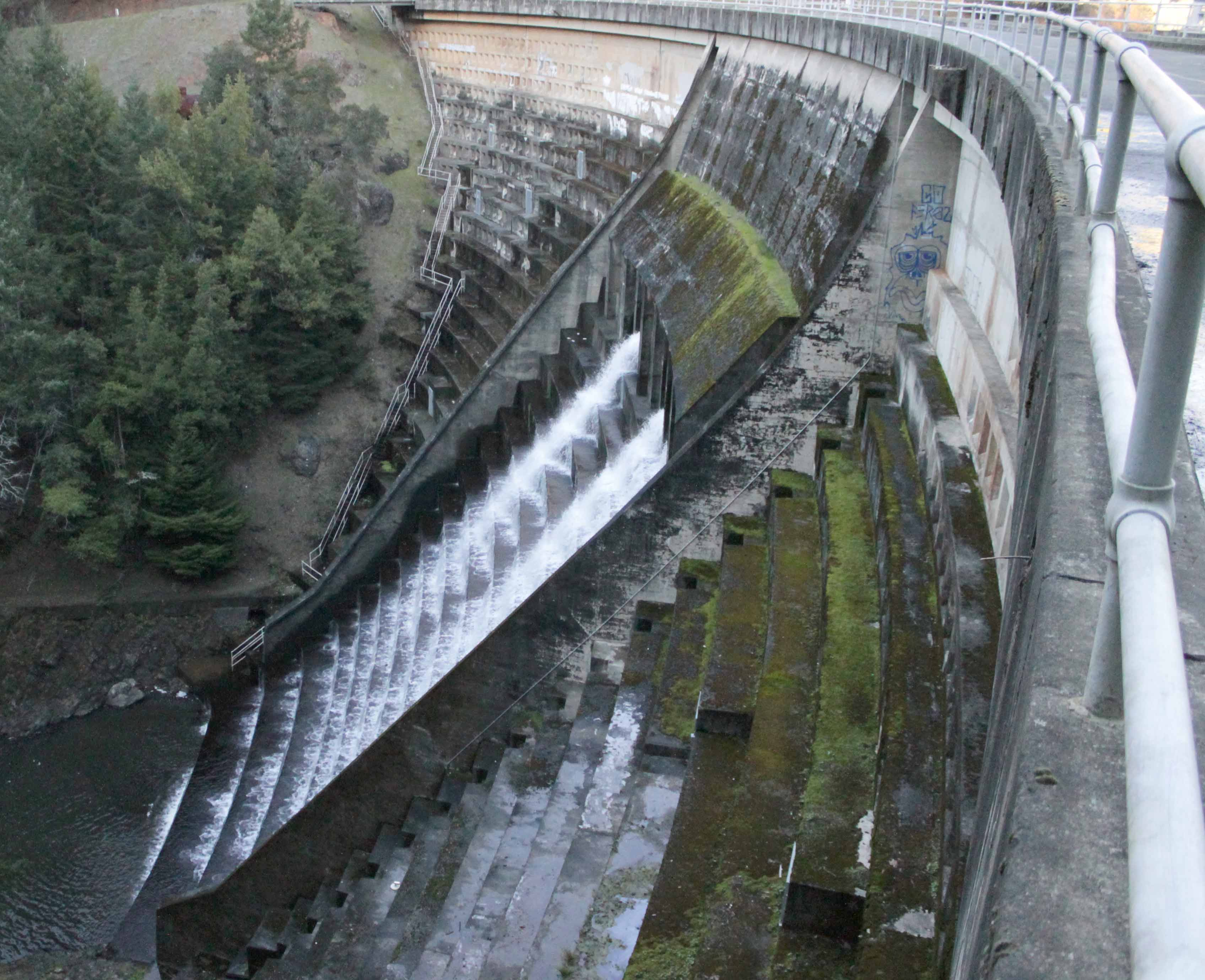 view of Alpine Dam in Marin County, California, USA from its crest. January 2013